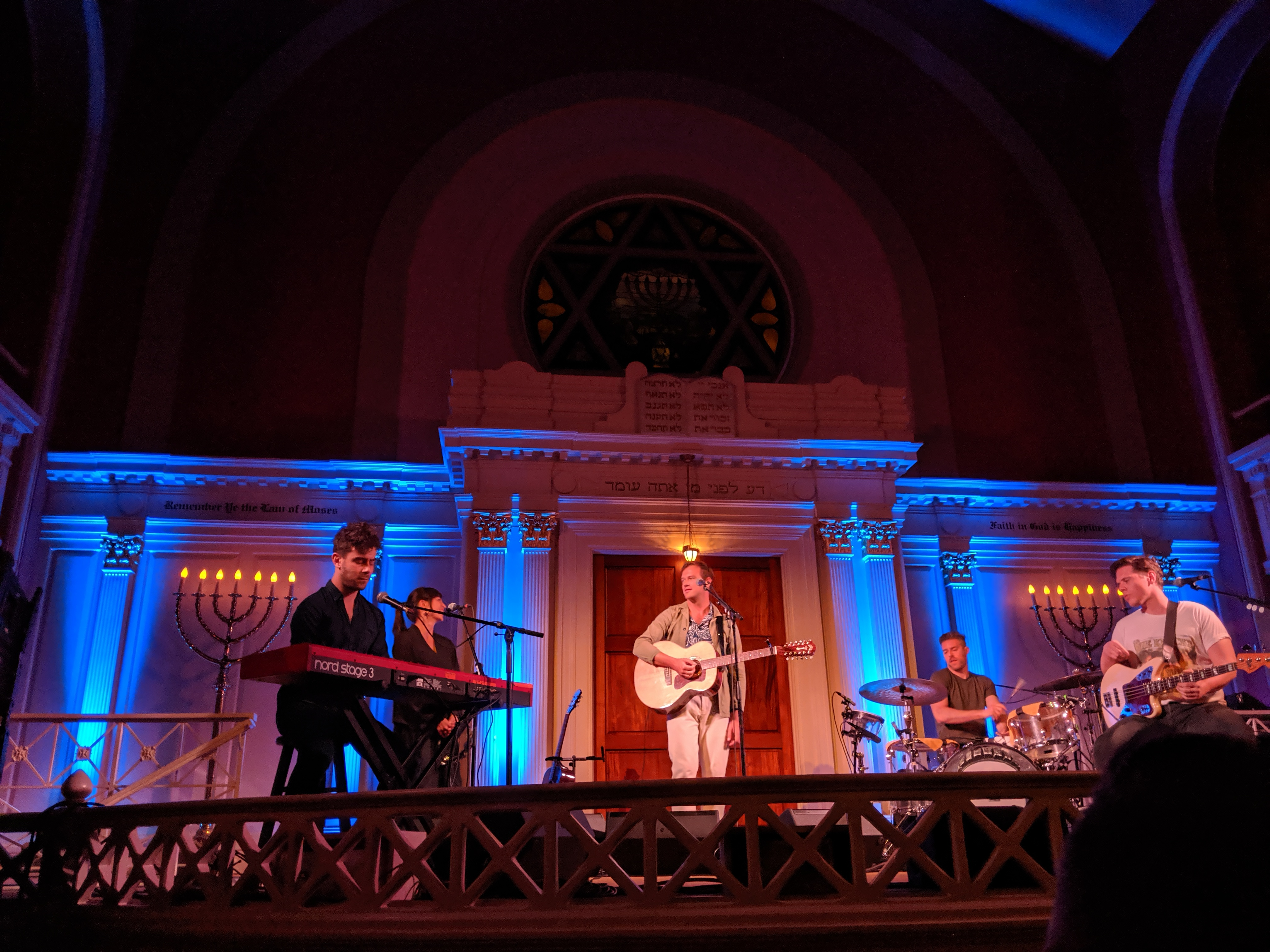 St. Lucia preforming at Sixth & I Synagogue, Washington DC USA, 20 may 2019